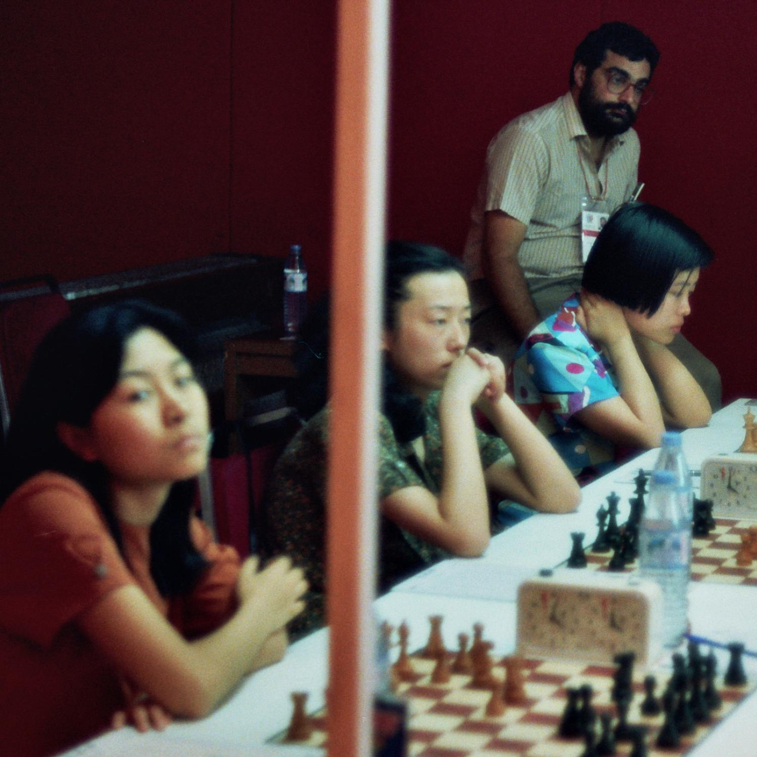 Qin Kanying, Wang Pin, Xie Jun, Chess Olympiad 1992, Photographer Gerhard Hund.